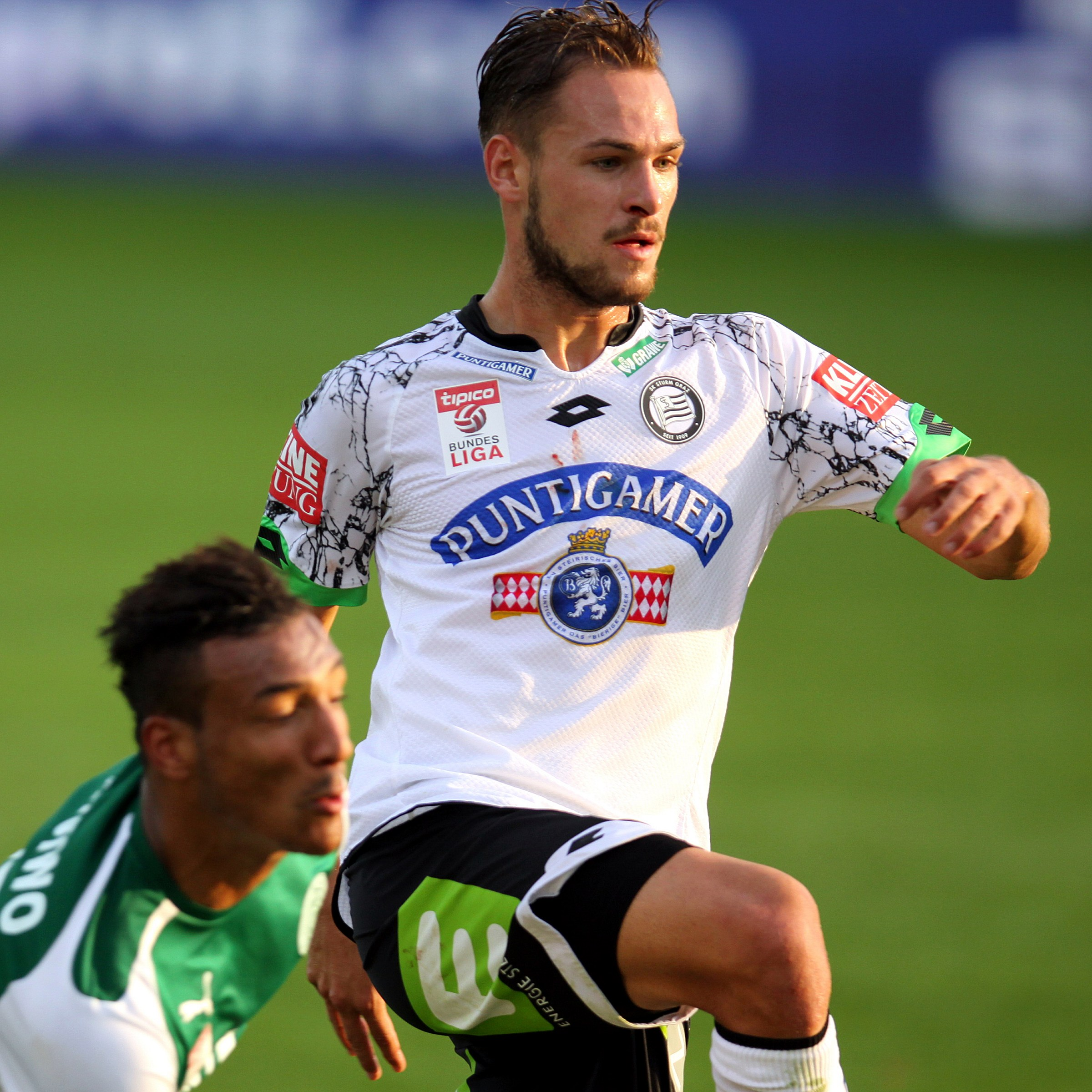 Match of the Austrian Football Bundesliga – SV Mattersburg (green shirts) vs. SK Sturm Graz (white shirts) on 2015-09-13 in Pappelstadion, Mattersburg – The photo shows Lukas Spendlhofer(right) and Karim Onisiwo (left)